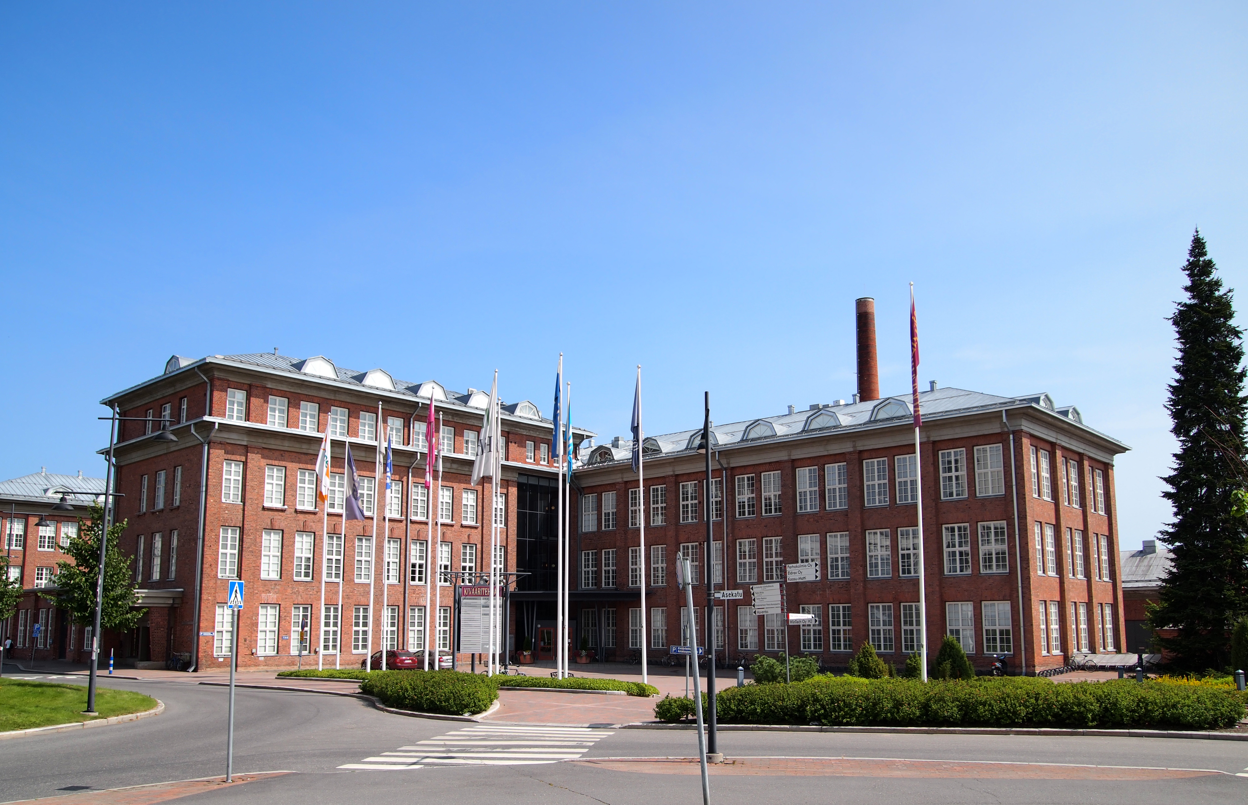 Building Kivääritehdas in Tourula district, Jyväskylä. This photograph was taken with an Olympus E-PL1